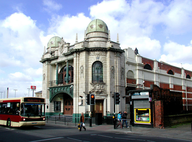 The Tower, Hull Former cinema just south of the railway station near the city centre end of Anlaby Road, Hull. The Tower was designed by H Percival Binks and opened its doors on June 1st 1914, initially seating 1,200 people which was later reduced to 750 when the original wooden benches were replaced by proper cinema seats. In September 1978 the Tower closed as a cinema after which it was used as a boxing venue, a roller disco and eventually as a night club and fun pub. The domes were partly renovated during restoration work by the new owners in September 2008 and are due to be resurfaced with mosaic tiles. The building was purchased by Tokyo Industries Ltd a uk nightclub operator in June 2011 with the intention to refurbish the venue back to its former glory and reopen as a nightclub and 1000capacity Live venue with no completion date at present - The property is still being marketed for sale and is available to interested developers - More info from